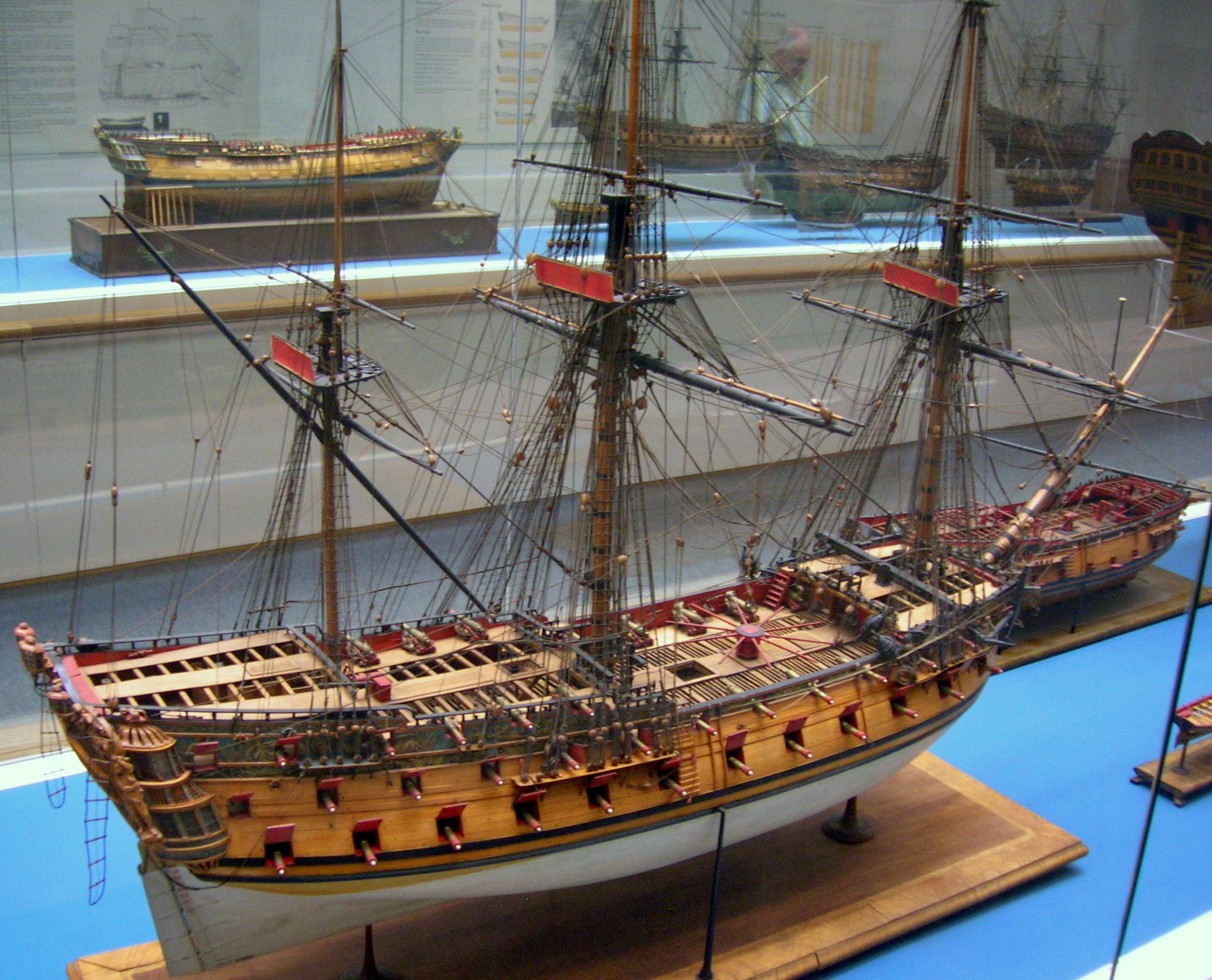 Model of Medway, 60-gun 4th rate ship, launched 1742. Rigging is from 1763.